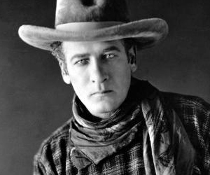 Photograph of Tom Santschi